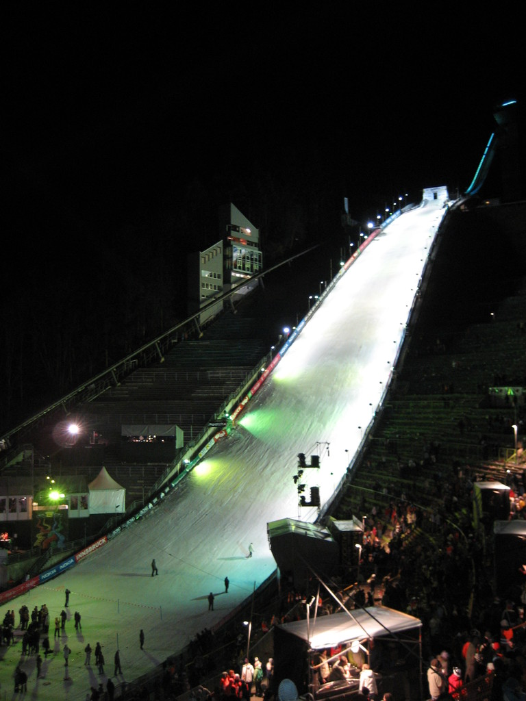 ski jumping in the night